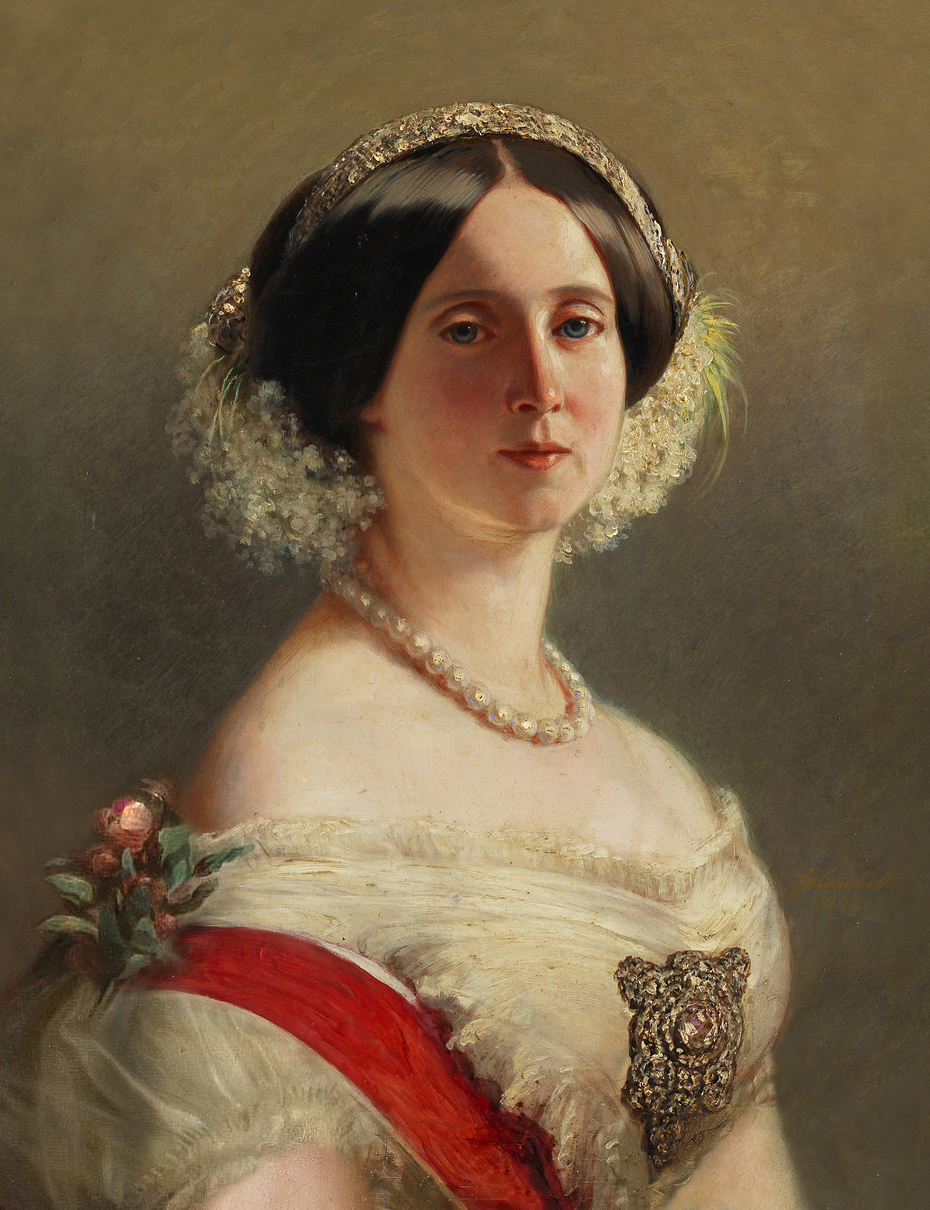 Portrait of Augusta of Saxe-Weimar-Eisenach as Crown Princess of Prussia, wearing the ribbon of the Order of the Red Eagle of Prussia. In July 1853 Queen Victoria commissioned to Franz Xaver Winterhalter a portrait of Princess Augusta, who was one of the Sponsors at the christening of Victoria’s son, Prince Leopold. That oval portrait is still in the Royal Collection, while this rectangular version is an autograph reply painted in the same year. In this second version the painter added a nosegay on the Princess' right shoulder.